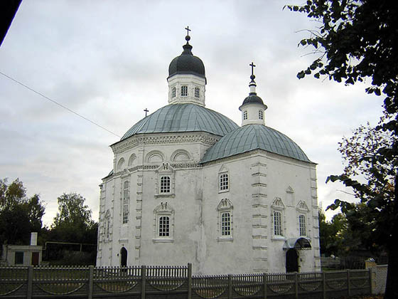 Starodub Cossack Cathedral, 1677-1678